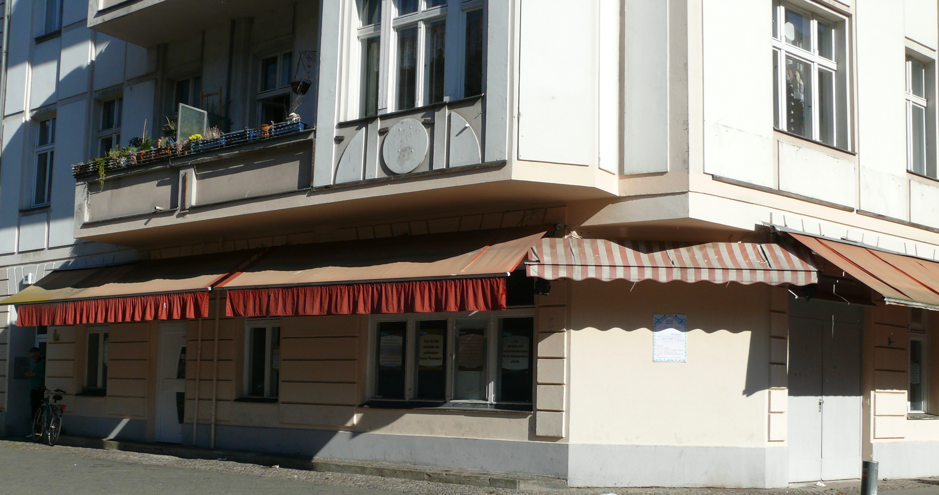 Berlin-Wedding Torfstraße/Sprengelstraße as-Sahaba-Moschee